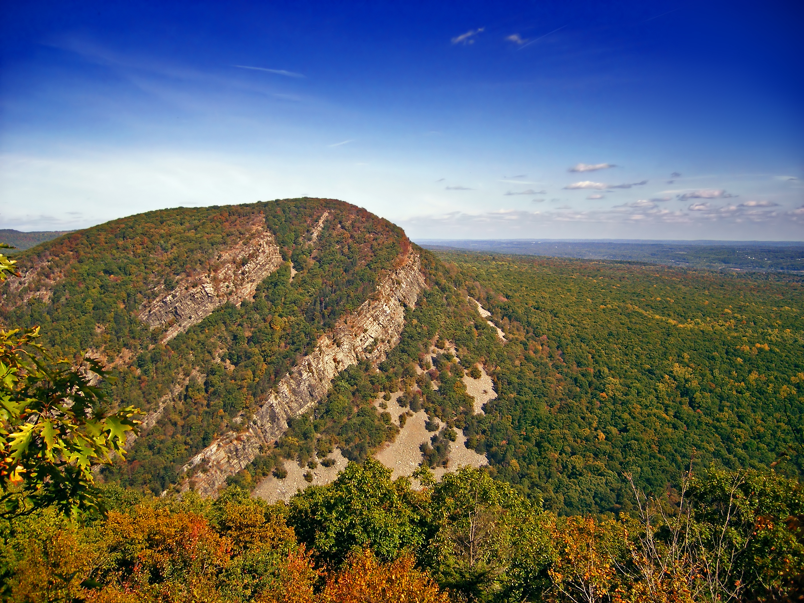 Mount Tammany (elevation approximately 1545 feet [471 meters]), Warren County, as seen from the Appalachian Trail at Mount Minsi, Pennsylvania.